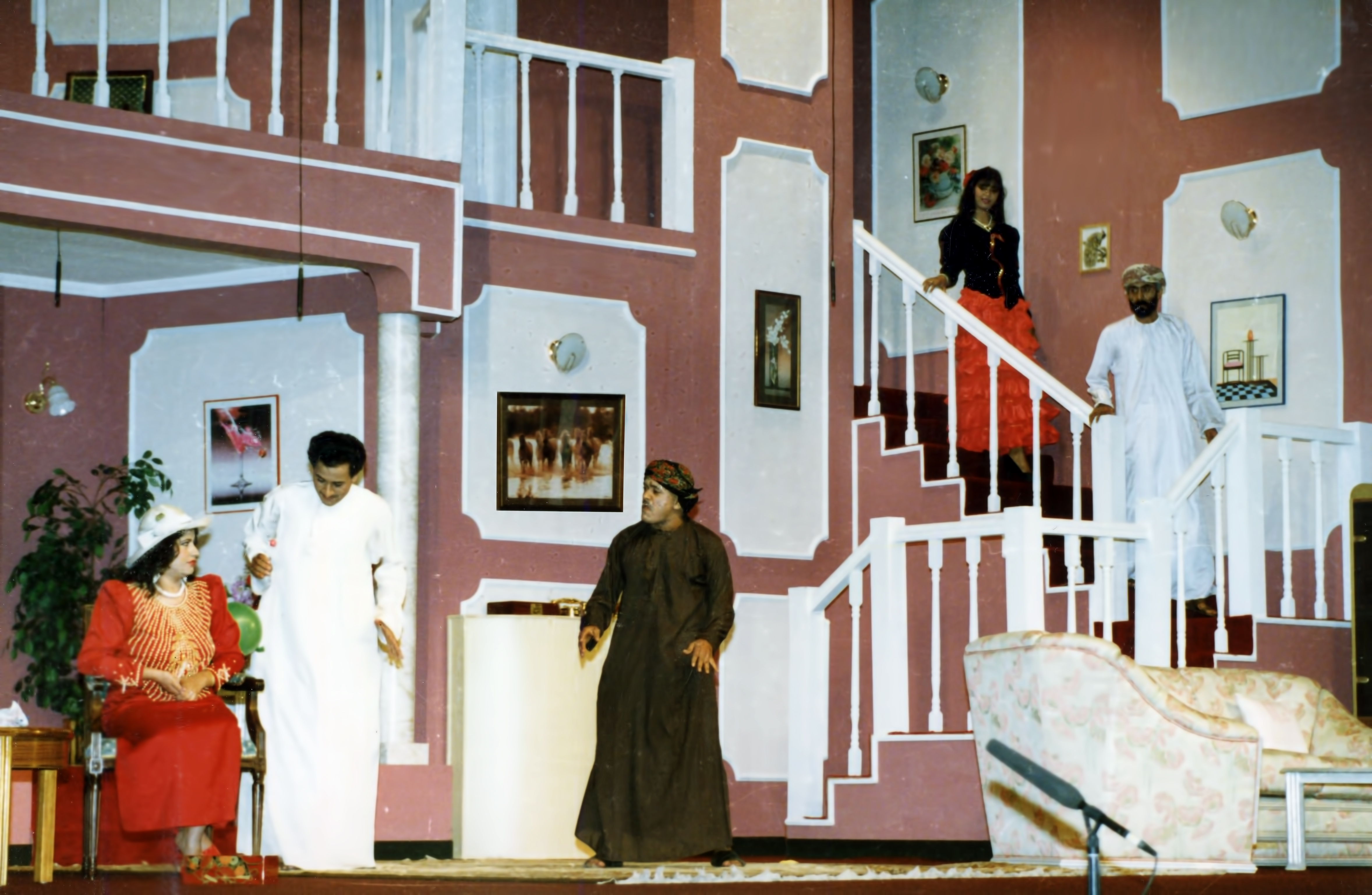 Mohammed Said Al-Shanfari directed "The Rat"